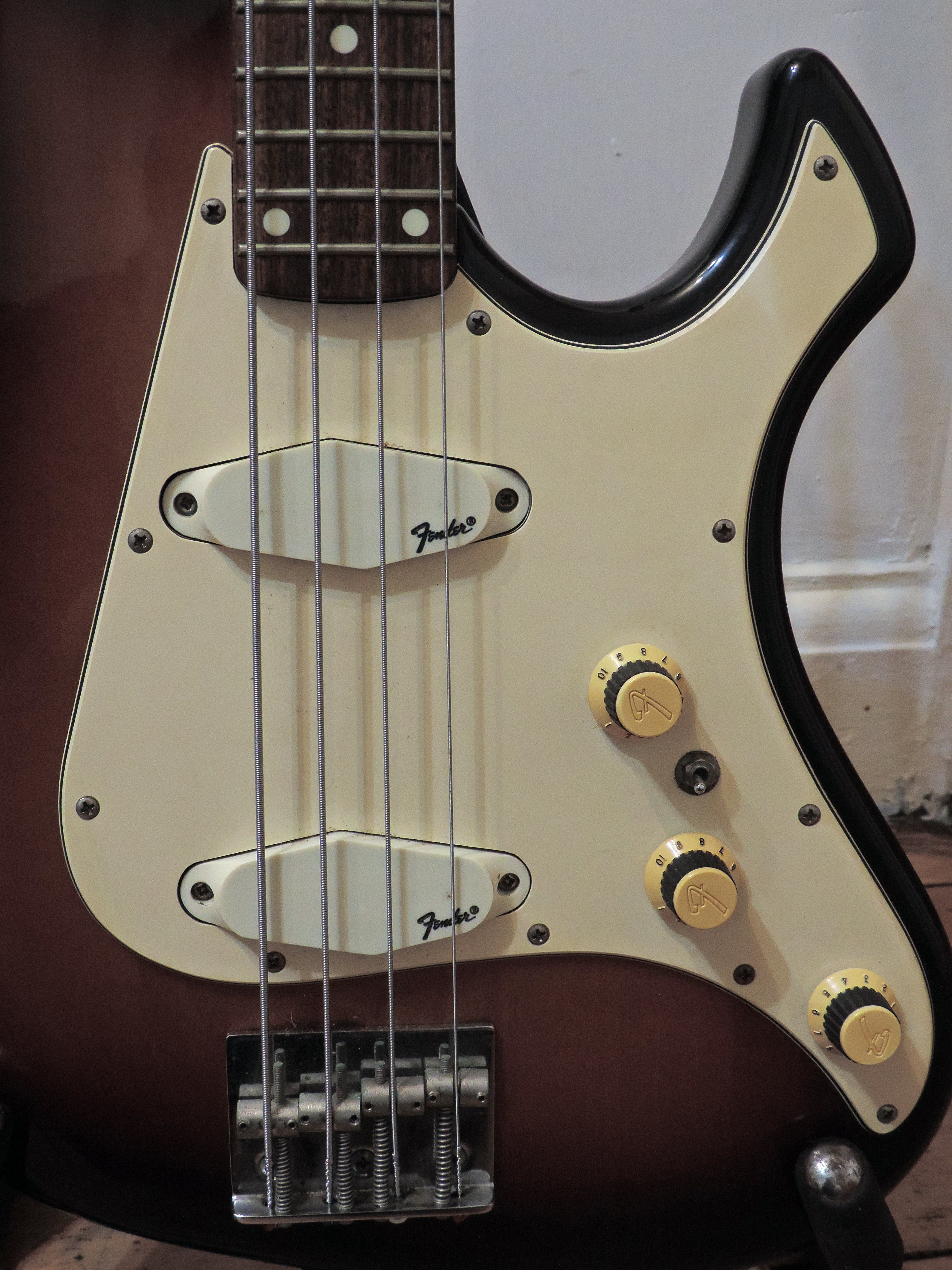 A close up of a Fender Performer bass in sunburst finish, showing the special shaped pickups, bridge, and controls and teh unique body shape.